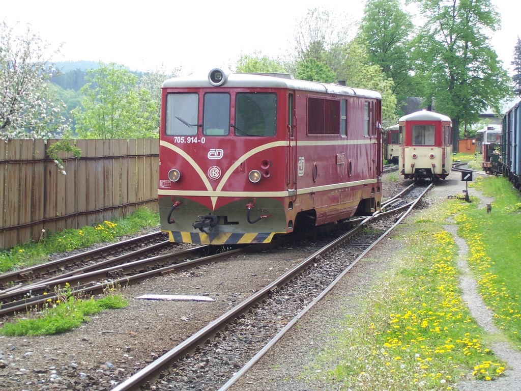 Narrow gauge railway Třemešná ve Slezsku - Osoblaha, Czech Republic.